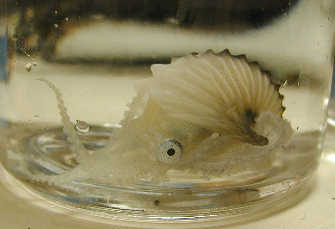 A paper nautilus (Argonauta argo), a relative of the squid.